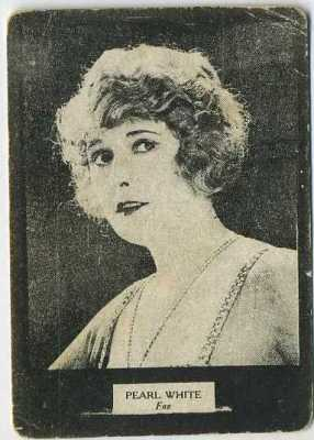 Pearl White